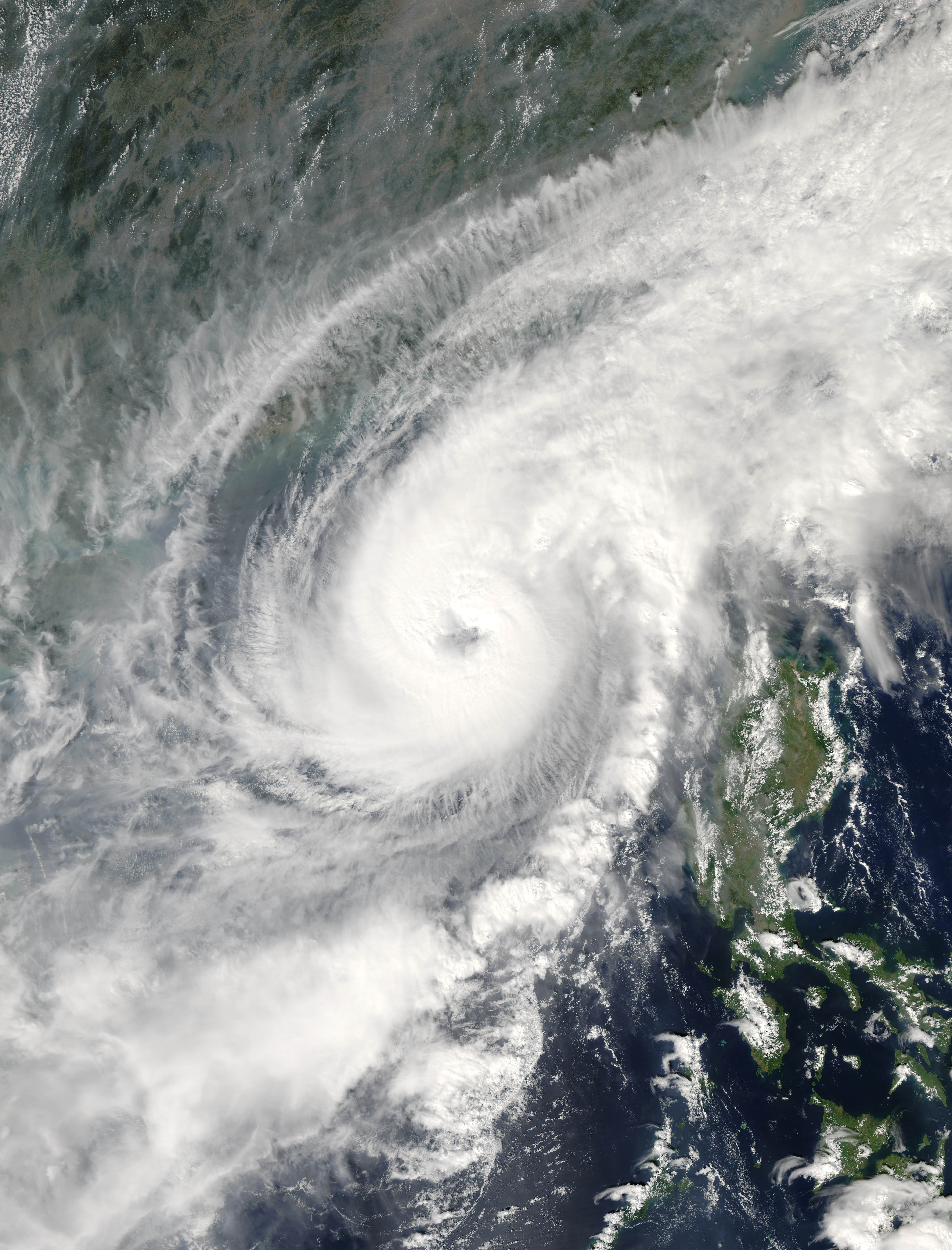 Super Typhoon Cimaron struck the northernmost large island in the Philippines, Luzon, on October 29, 2006. According to BBC News Service, the typhoon was the most powerful to strike the island chain since 1998, lashing Luzon with 200-kilometer-an-hour (125-mile-per-hour) winds and torrential rain. After passing through the island chain, Cimaron weakened significantly, falling below Category 3 strength (the threshold seperating a typhoon from a super typhoon). The typhoon then picked up power over the South China Sea as it headed towards Vietnam. On November 1, Reuters reported a projected landfall in Vietnam on November 3, with an expected strength of Category 1, though predictions of storm strength are challenging to make accurately. Residents of Vietnam are preparing for possible evacuations, as are residents of the Chinese coastal areas including the island of Hainan and Hong Kong. This photo-like image was acquired by the Moderate Resolution Imaging Spectroradiometer (MODIS) on the Aqua satellite on November 1, 2006, at 1:35 p.m. local time (5:35 UTC). At this time, Typhoon Cimaron was in the center of the South China Sea. Winds were around 160 kilometers per hour (100 miles per hour), according to the University of Hawaii’s Tropical Storm Information Center. The high-resolution image provided above is at MODIS’ full spatial resolution (level of detail) of 250 meters per pixel. The MODIS Rapid Response System provides this image at additional resolutions.